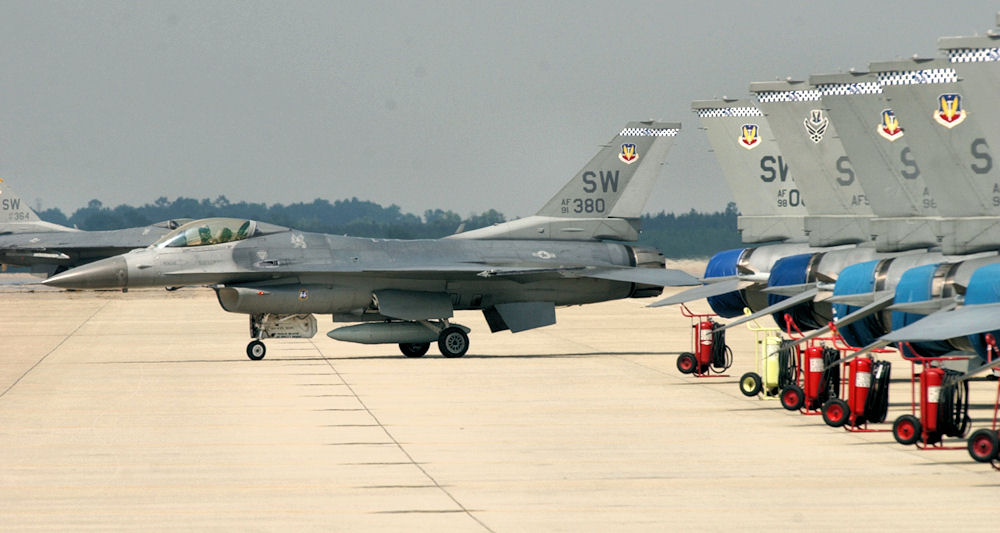 A 55th Fighter Squadron F-16 returns to the parking ramp after another local training mission.